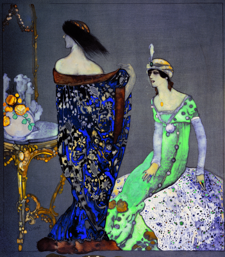 Le Manteau bleu, painting by Xavier Gosé (1876-1915)